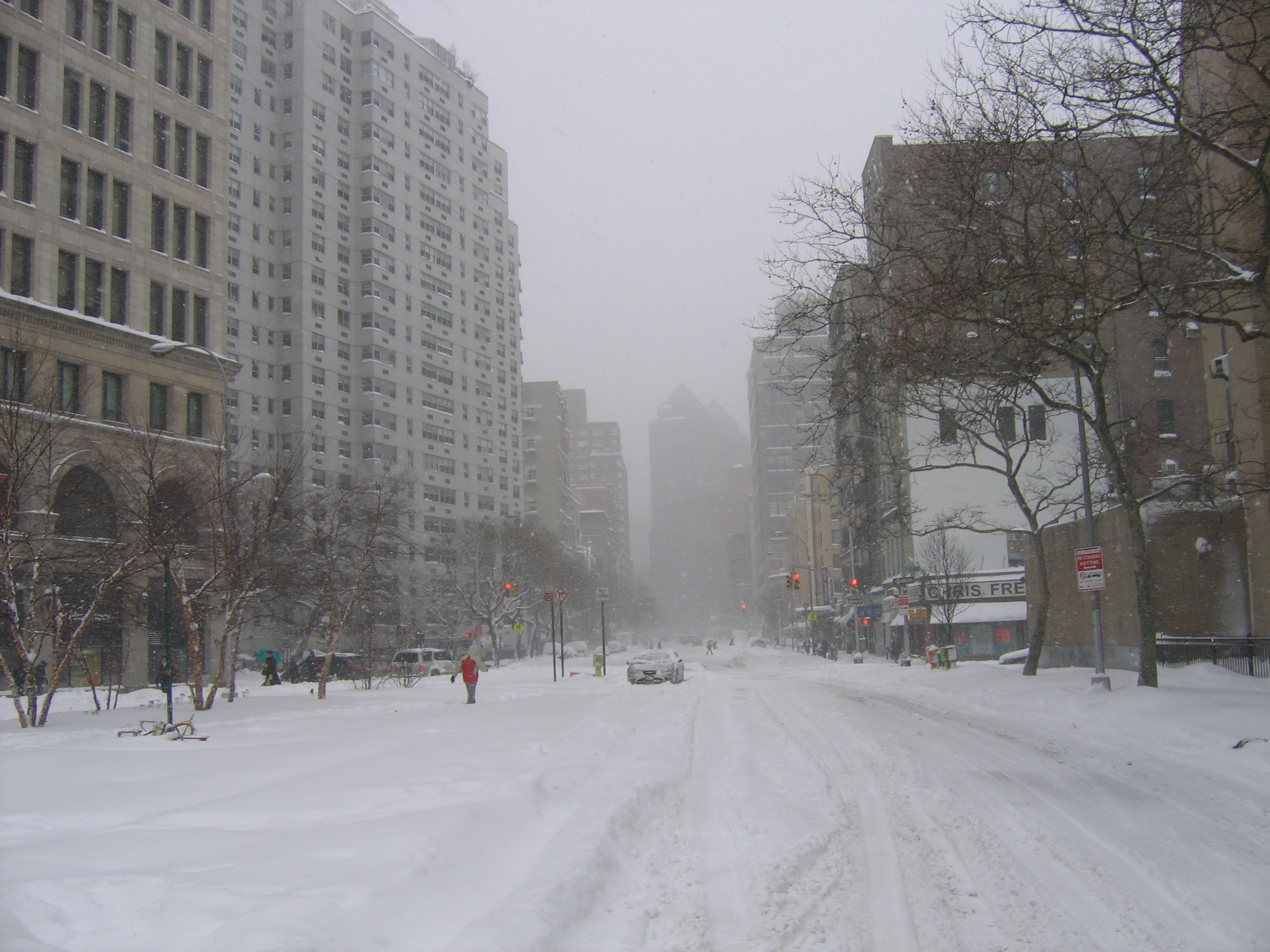 Looking north up Fourth Avenue from Astor Place in East Village, New York City during 2006 blizzard.